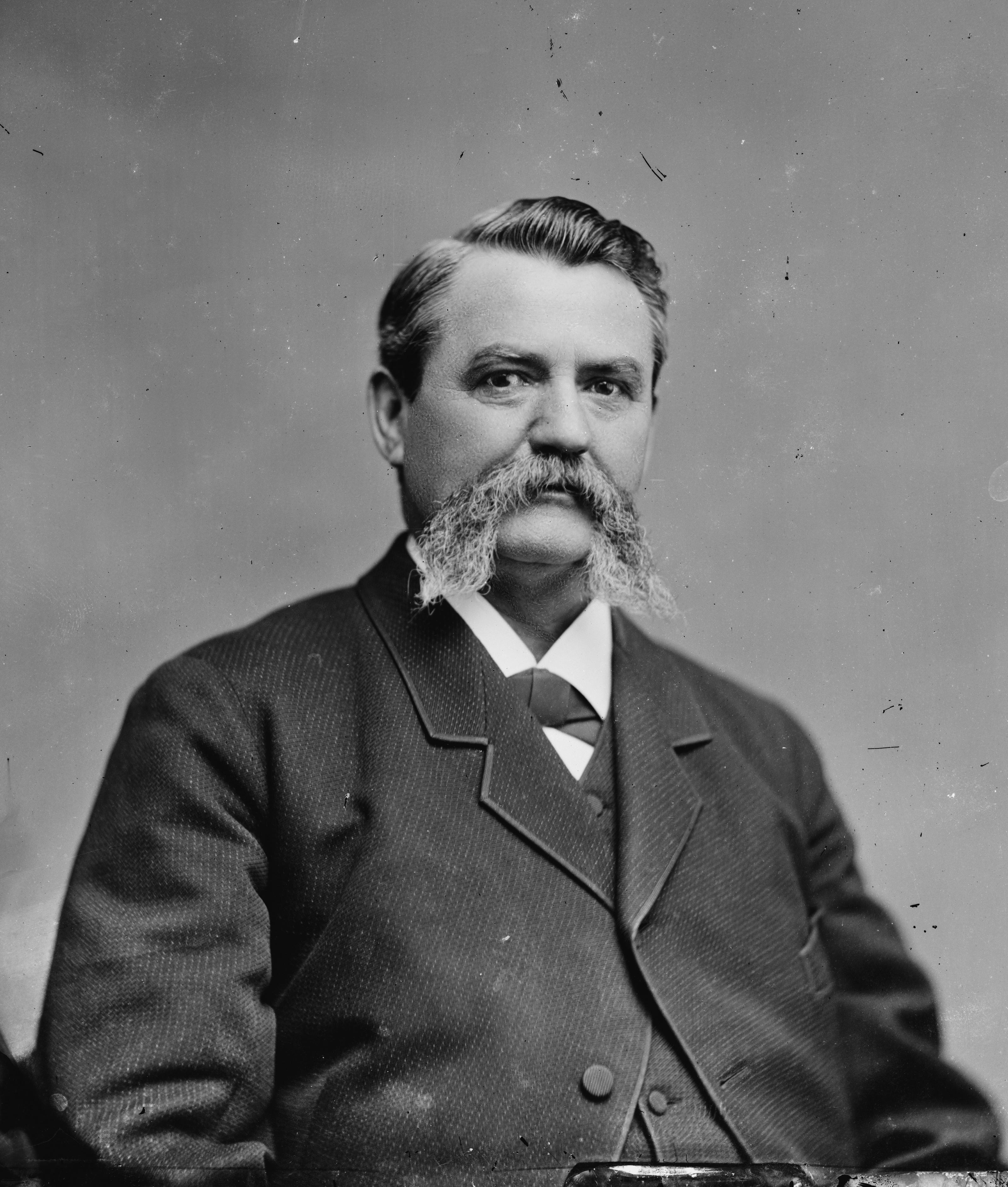 George M. Chilcott. Library of Congress description: "Chilcott, Senator (Geo. M. Chilicott of Col?)"